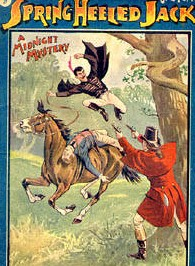 Spring Heeled Jack as depicted by an anonymous artist - Cover of an english penny dreadful (1904)